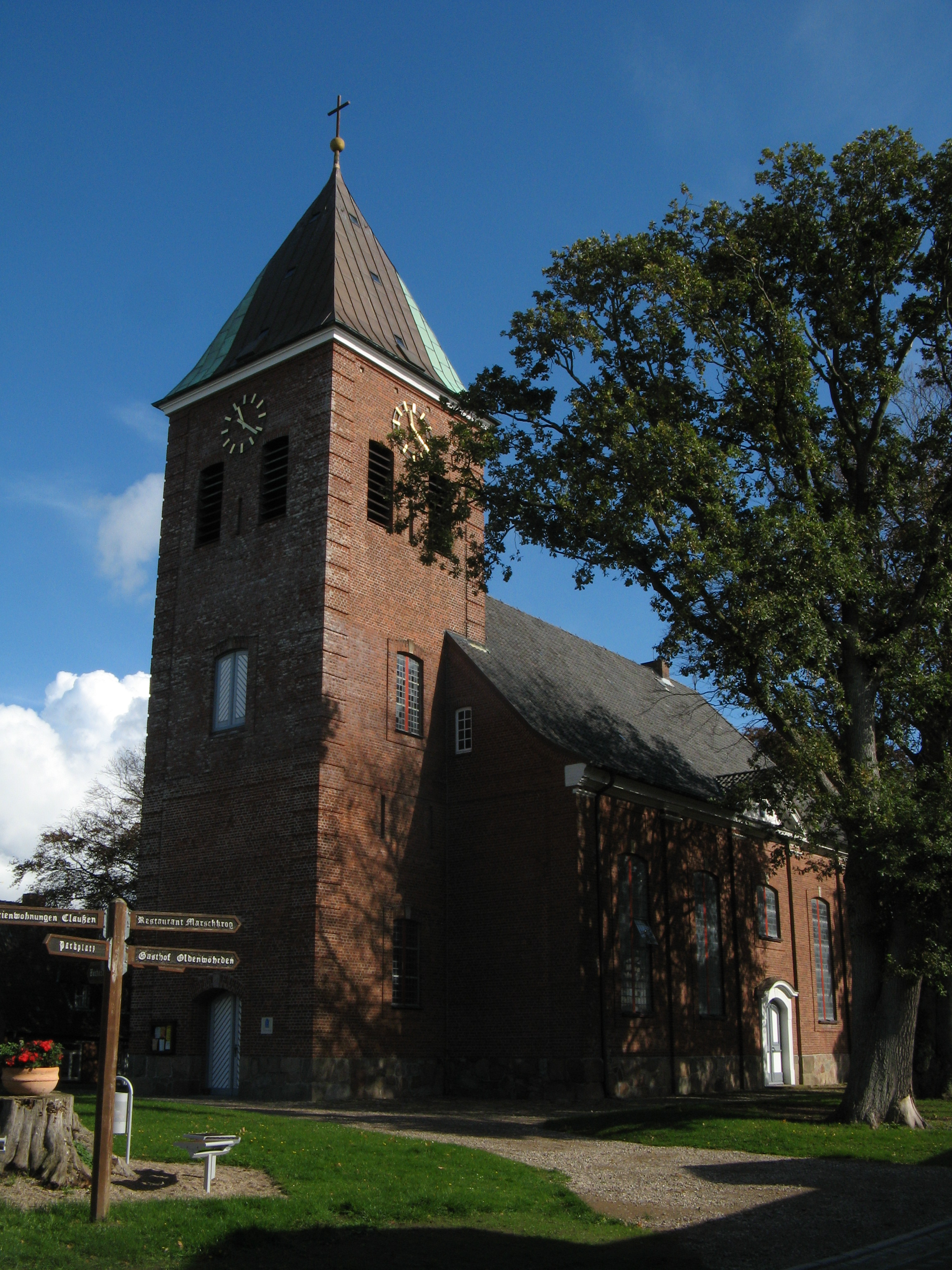 St Ansgar church in Wöhrden, Dithmarschen, Germany in summer